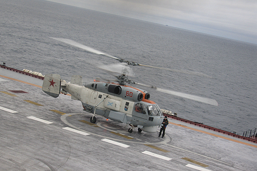 BARENTS SEA. On board the Aircraft Carrier Admiral Kuznetsov.